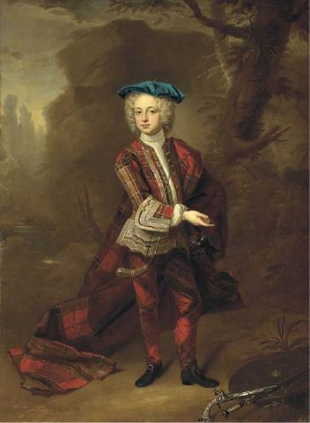 Thomas Osborne (1713-89) Earl of Danby, later 4th Duke of Leeds and 3rd Viscount Dunblane, in highland costume, with a targe, a sword and a pistol beside him, in a landscape.